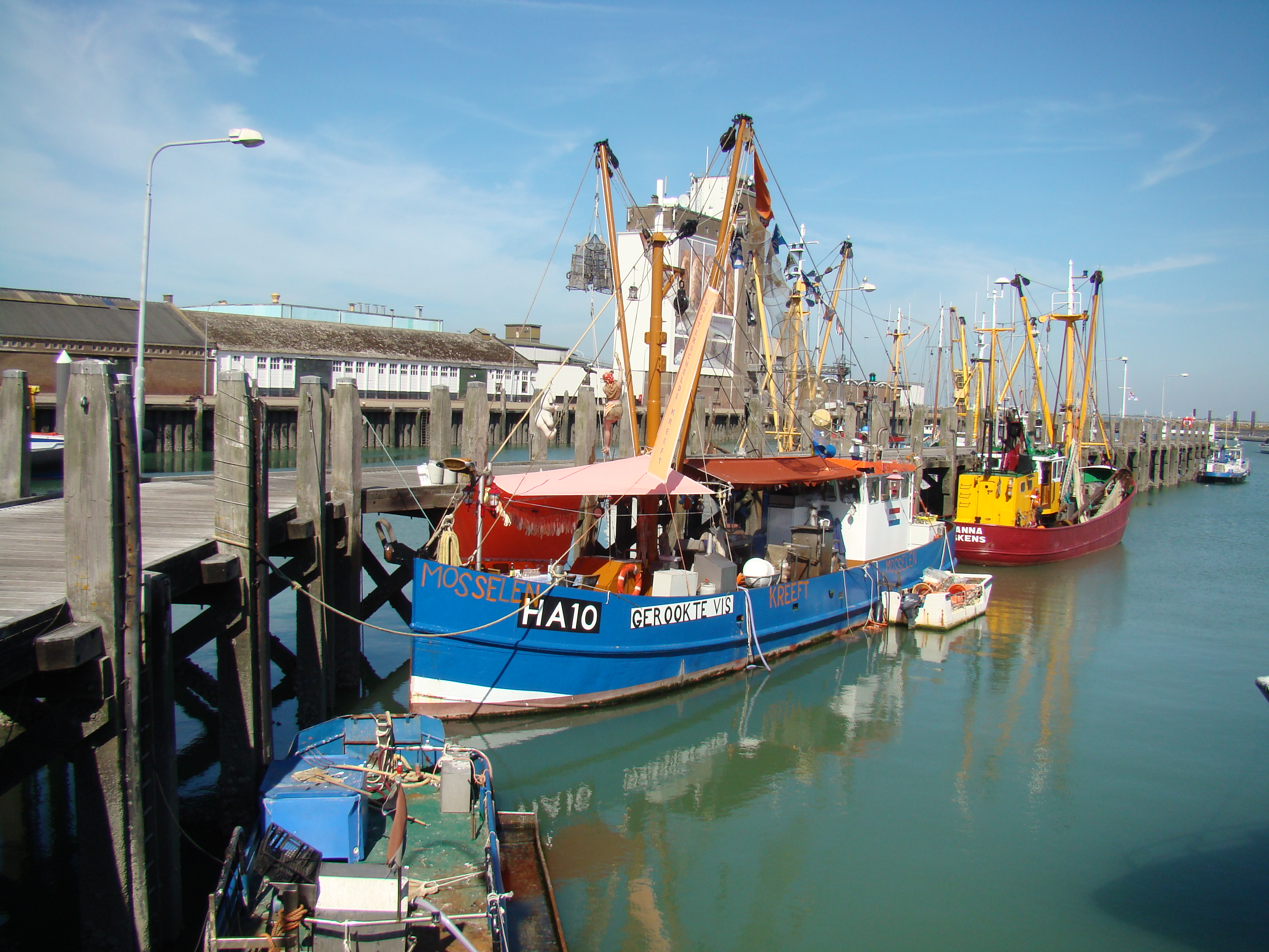 Marina of Breskens